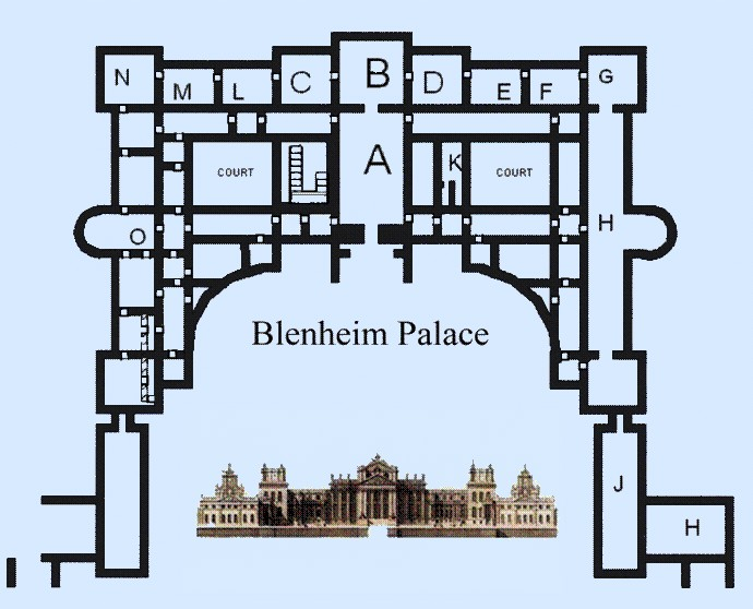 Unscaled and simplified plan of Blenheim Palace.